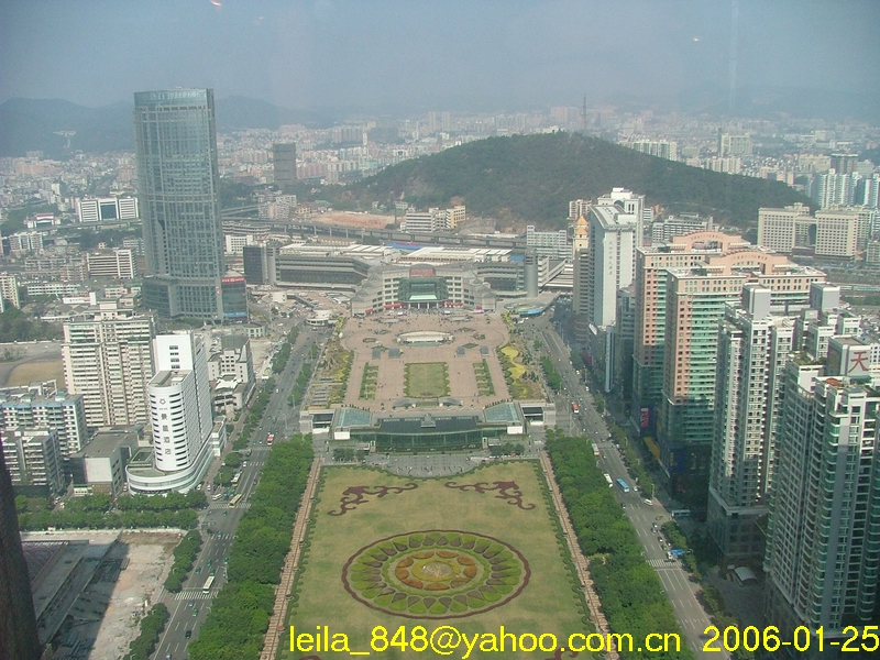 Canton East Station and the garden in front 粵語: 廣州東站廣場